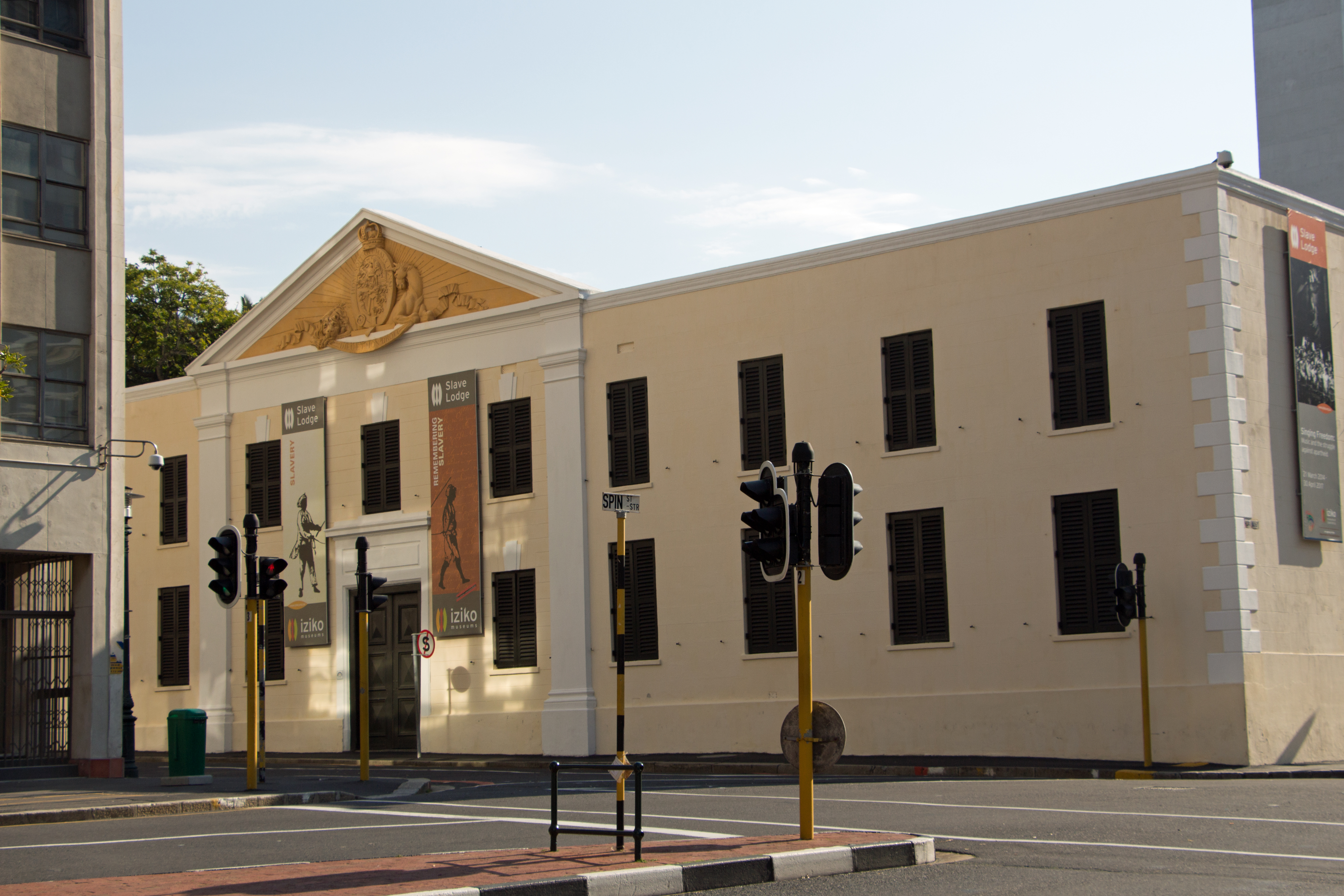 Slave Lodge museum in Cape Town, South Africa viewed from the intersection of Spin Street and Kerk/Parliament Street This media shows a South African Protected Site with SAHRA file reference 9/2/018/0177.